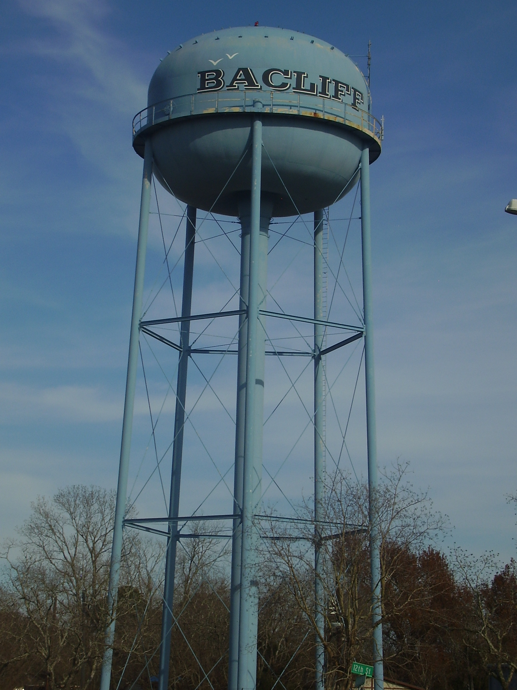 Bacliff, Texas water tower